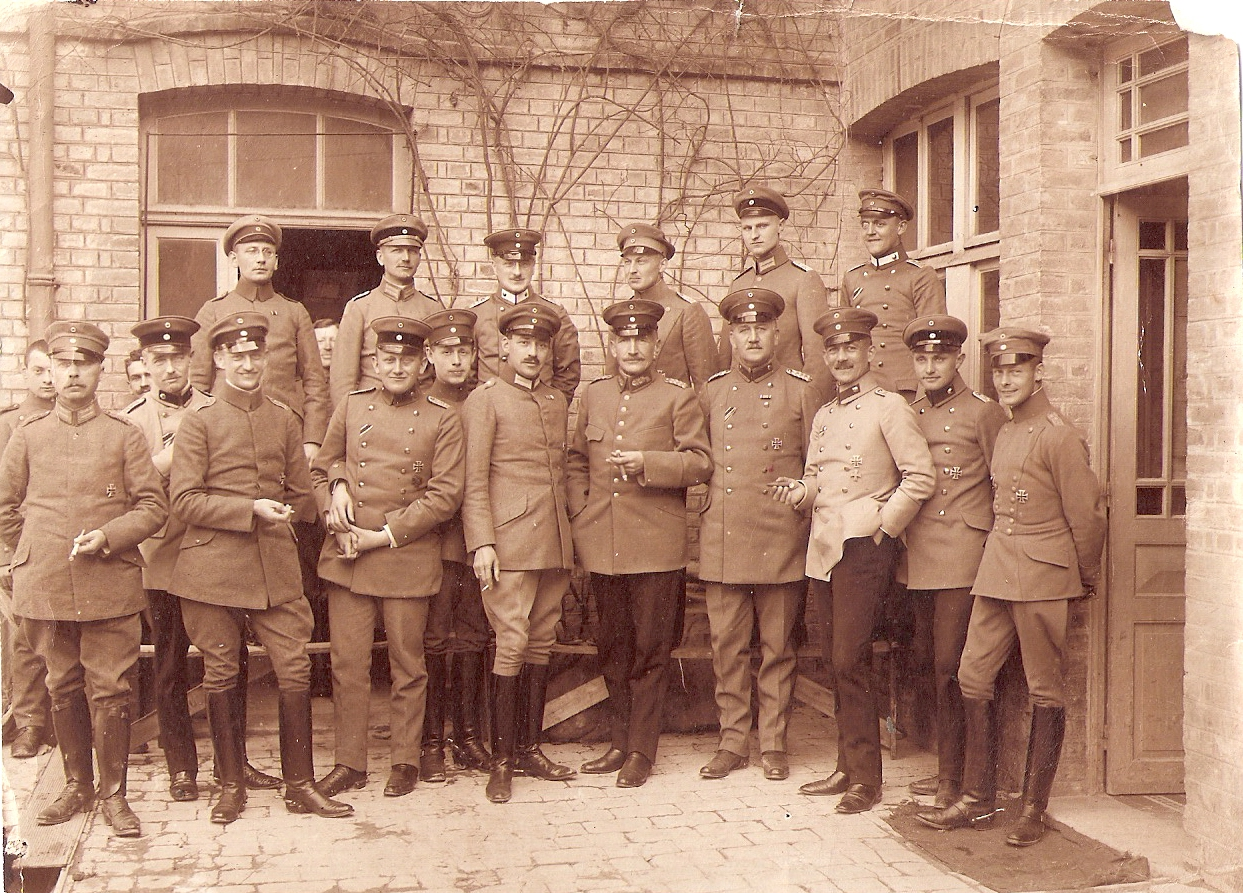 Staff of the 34th Prussian Division in spring 1917 in front/middle the commanding General Maj.Gen. Teetzmann (with cigar), near to him on the right the Commander of Artillery No.34 Maj.Gen. Zunker